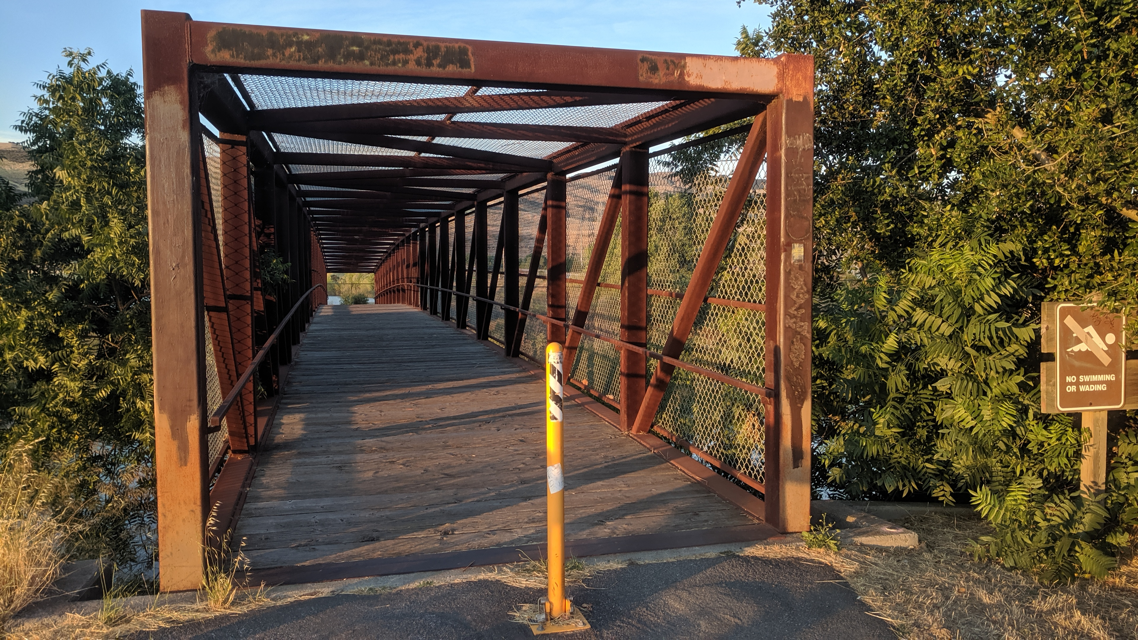 A bridge over Coyote Creek on the Coyote Creek Trail in South San Jose next to Monterey Road